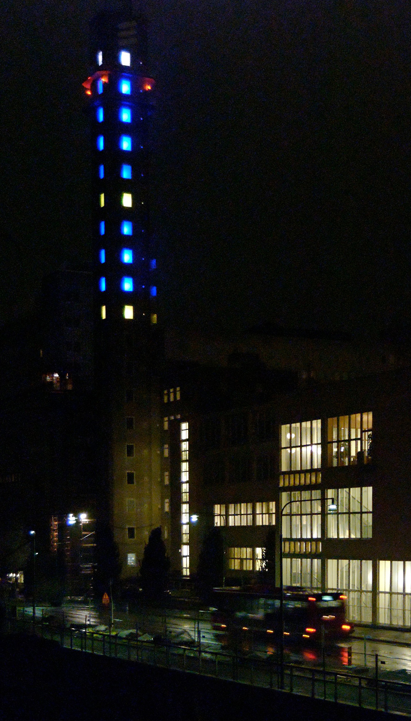 Colour by numbers in the LM tower November 17, 2006